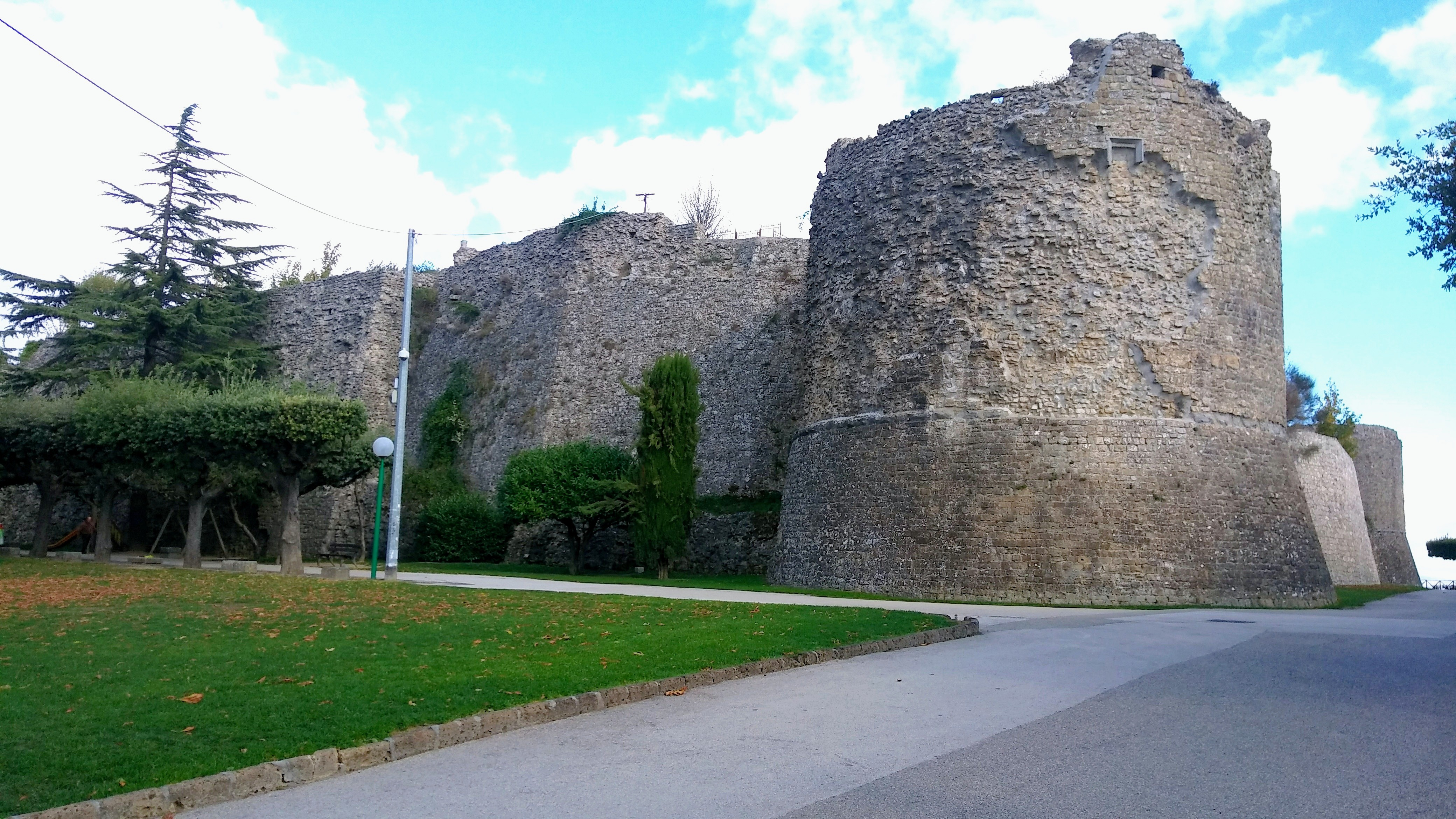 A view of the Norman Castle in Ariano Irpino, Italy